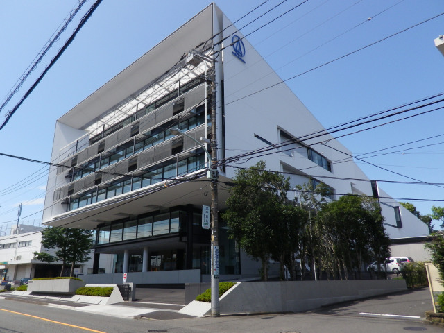 Audio-Technica Co., Ltd. Headquarters (2-46-1 Nishinaruse, Machida City, Tokyo)